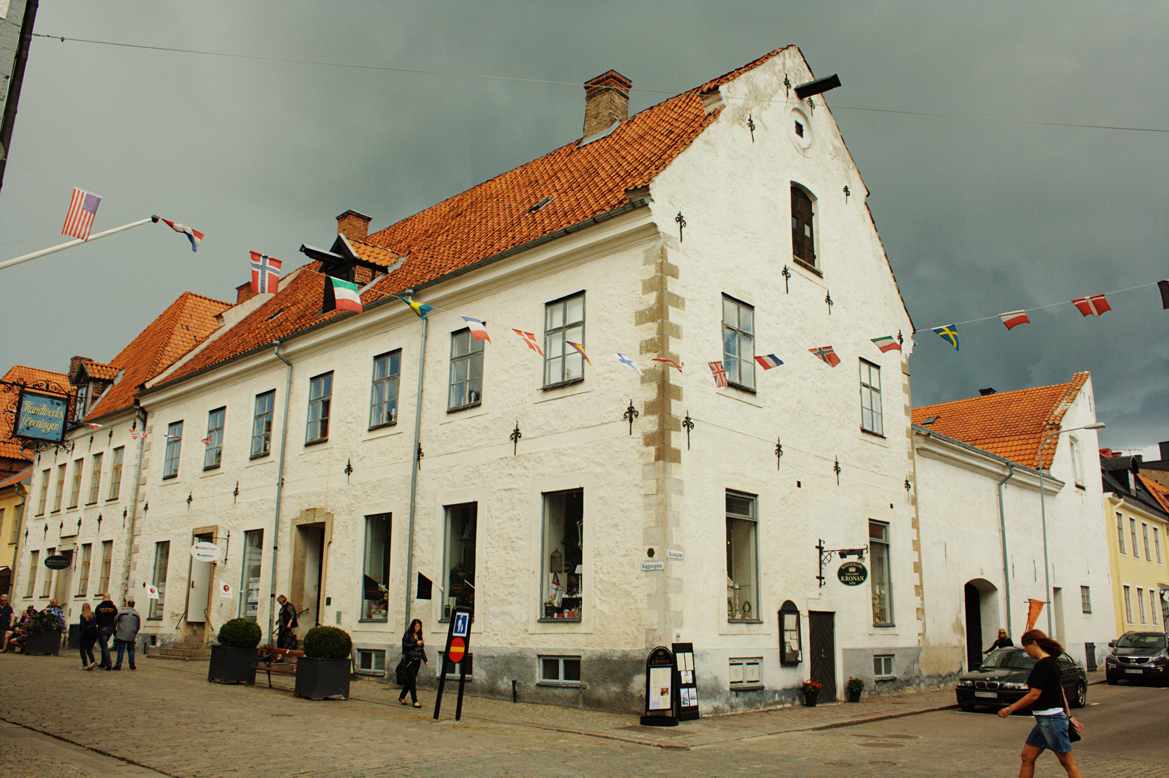 Sahlsteen House in Kalmar